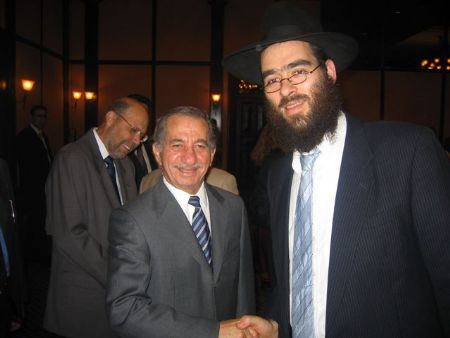 Rabbi Arie Zeev Raskin meets the last President of Cyprus Mr Tassos Papadopoulos